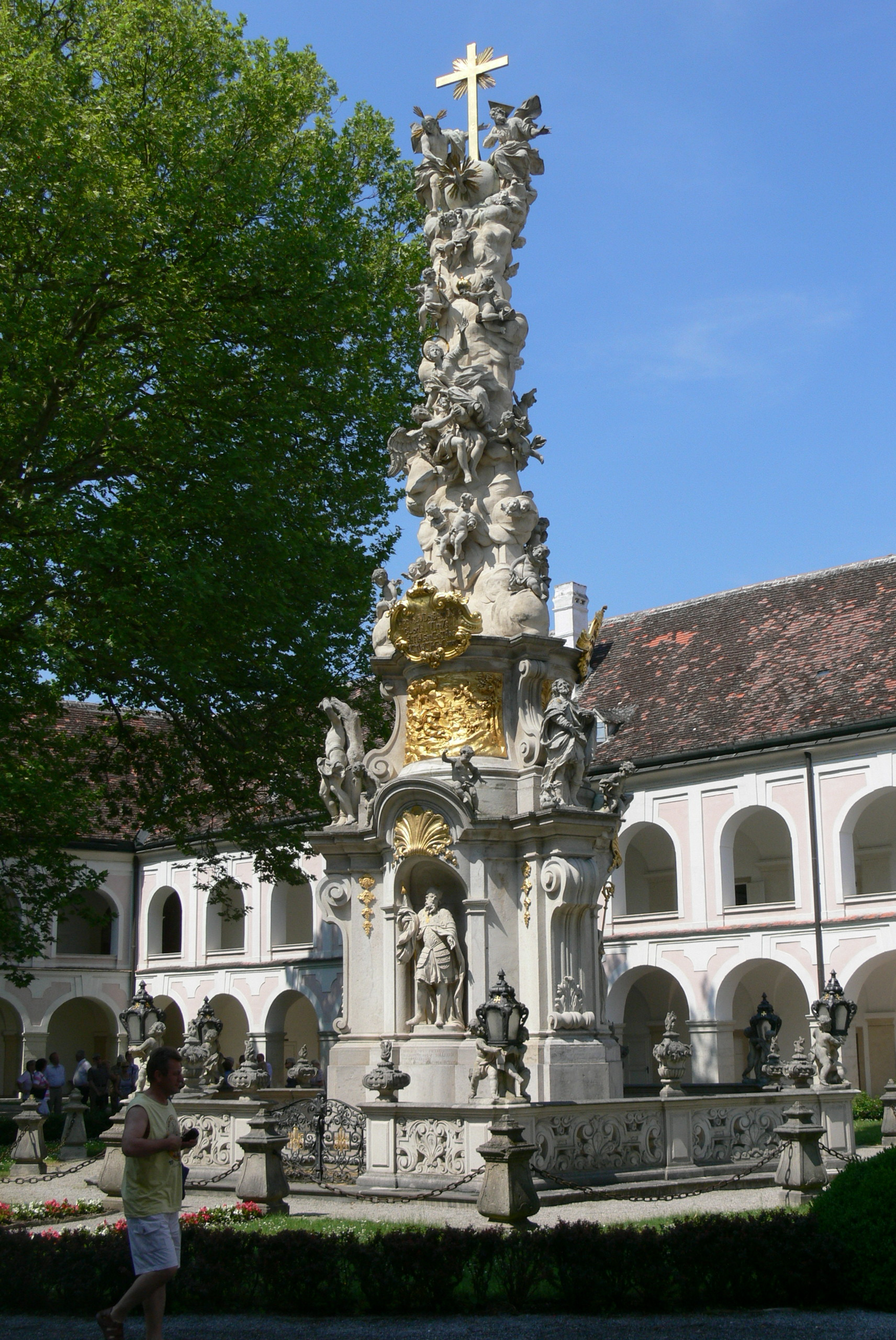 Heiligenkreuz abbey ( Lower Austria ). Monastery courtyard: Holy Trinity column ( 18th century ) by Giovanni Giuliani.